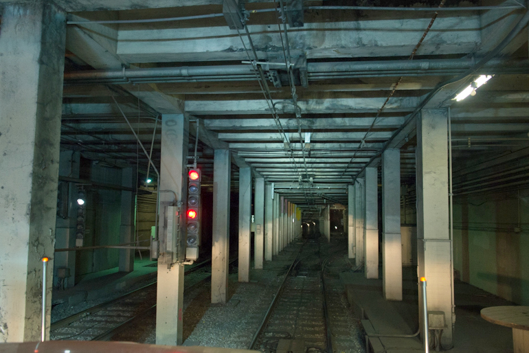 The abandoned Eureka Valley station in 2015. The remains of the inbound platform are at right. In the distance is the ramp to 17th Street, used during Market Street Subway construction.